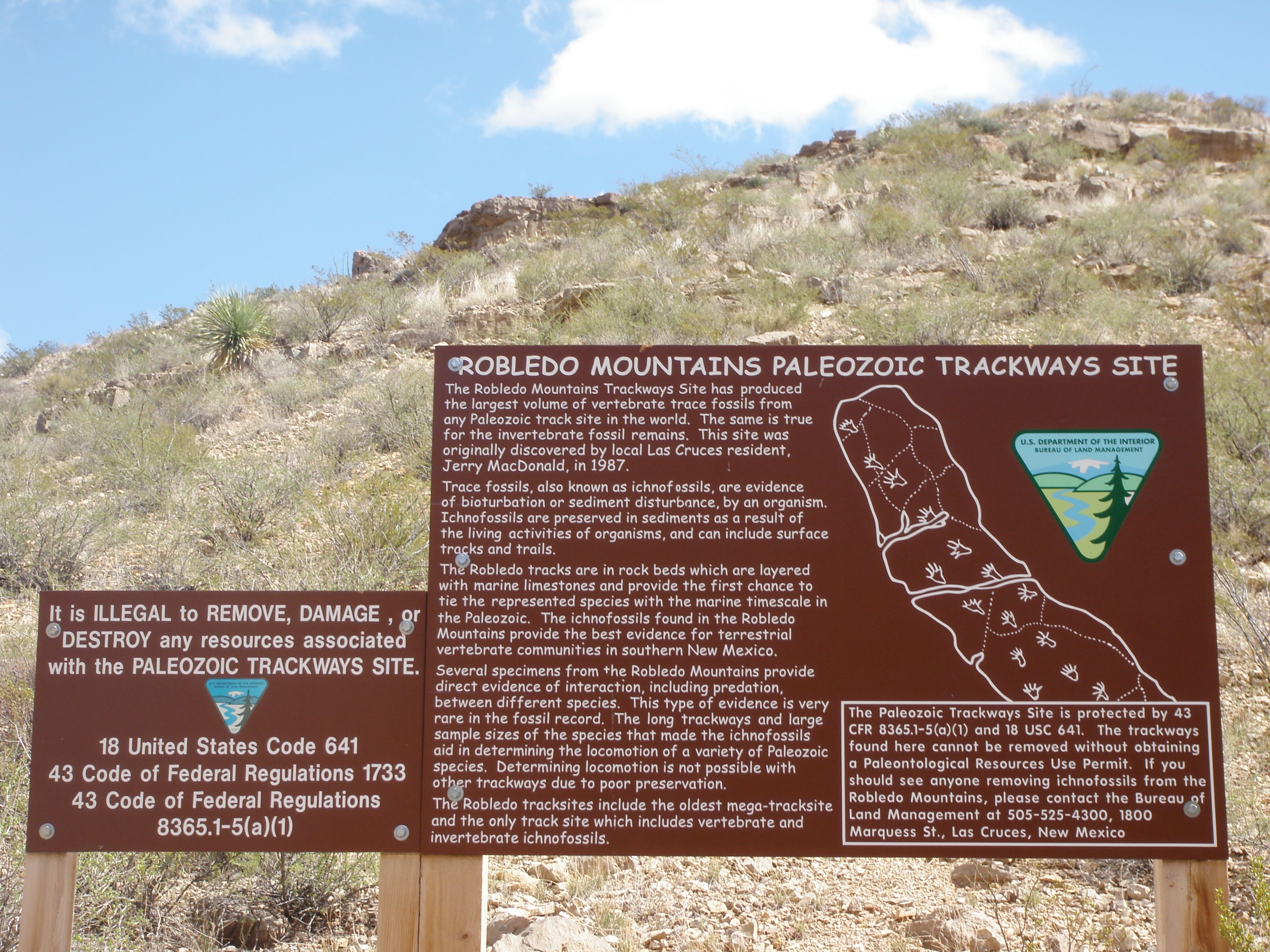 BLM sign located at the discovery site in the Prehistoric National Monument.